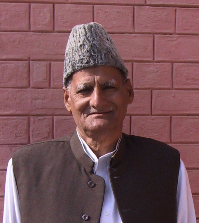 Justice Chaudhry Muhammad Sharif was a prominent judge of High Court in Pakistan. Here is a picture of the honorable judge at his residence in Bahawalpur, Pakistan.